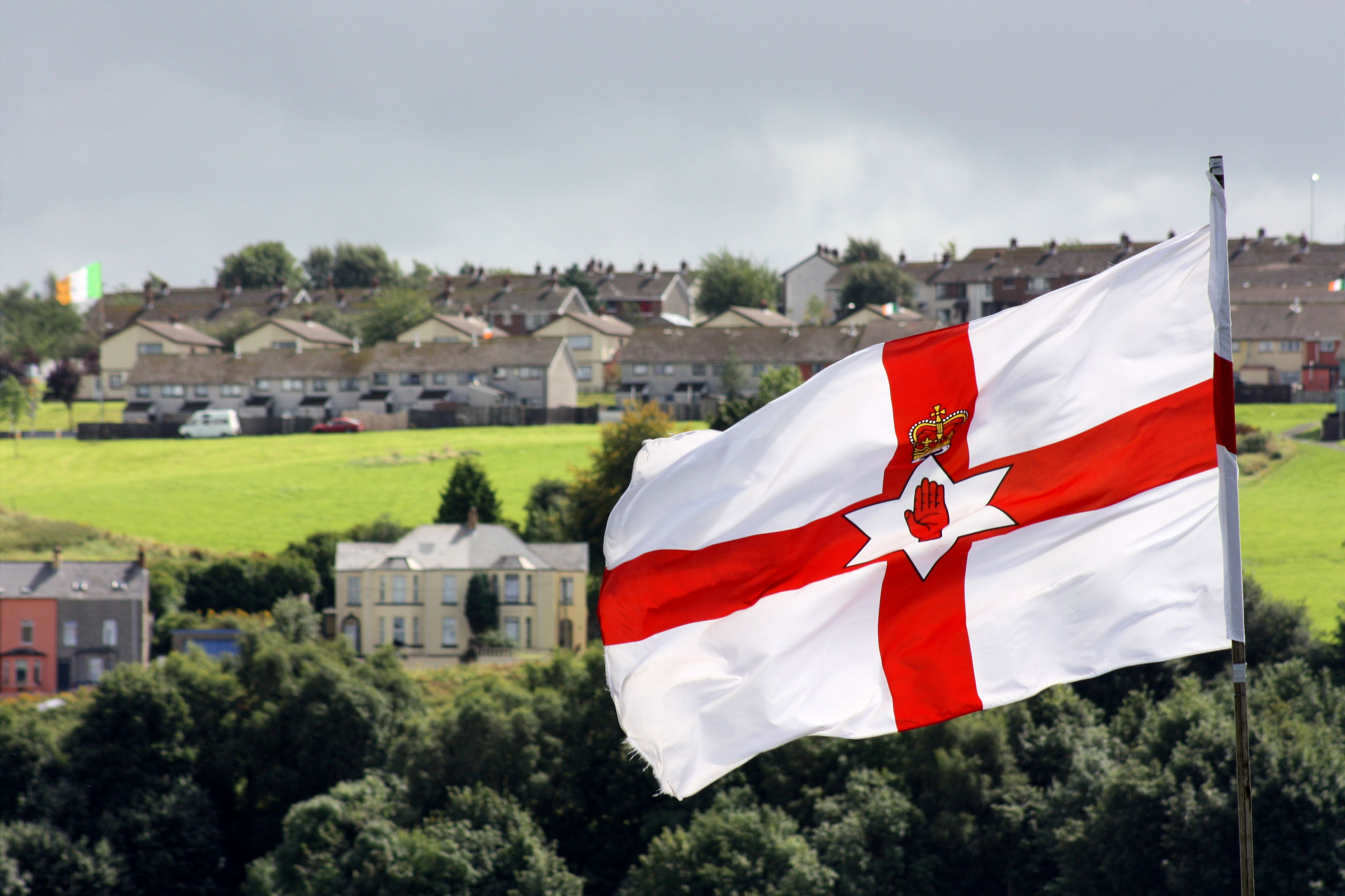 Flag over The Fountain area, Londonderry, Co. Londonderry, Northern Ireland, August 2009